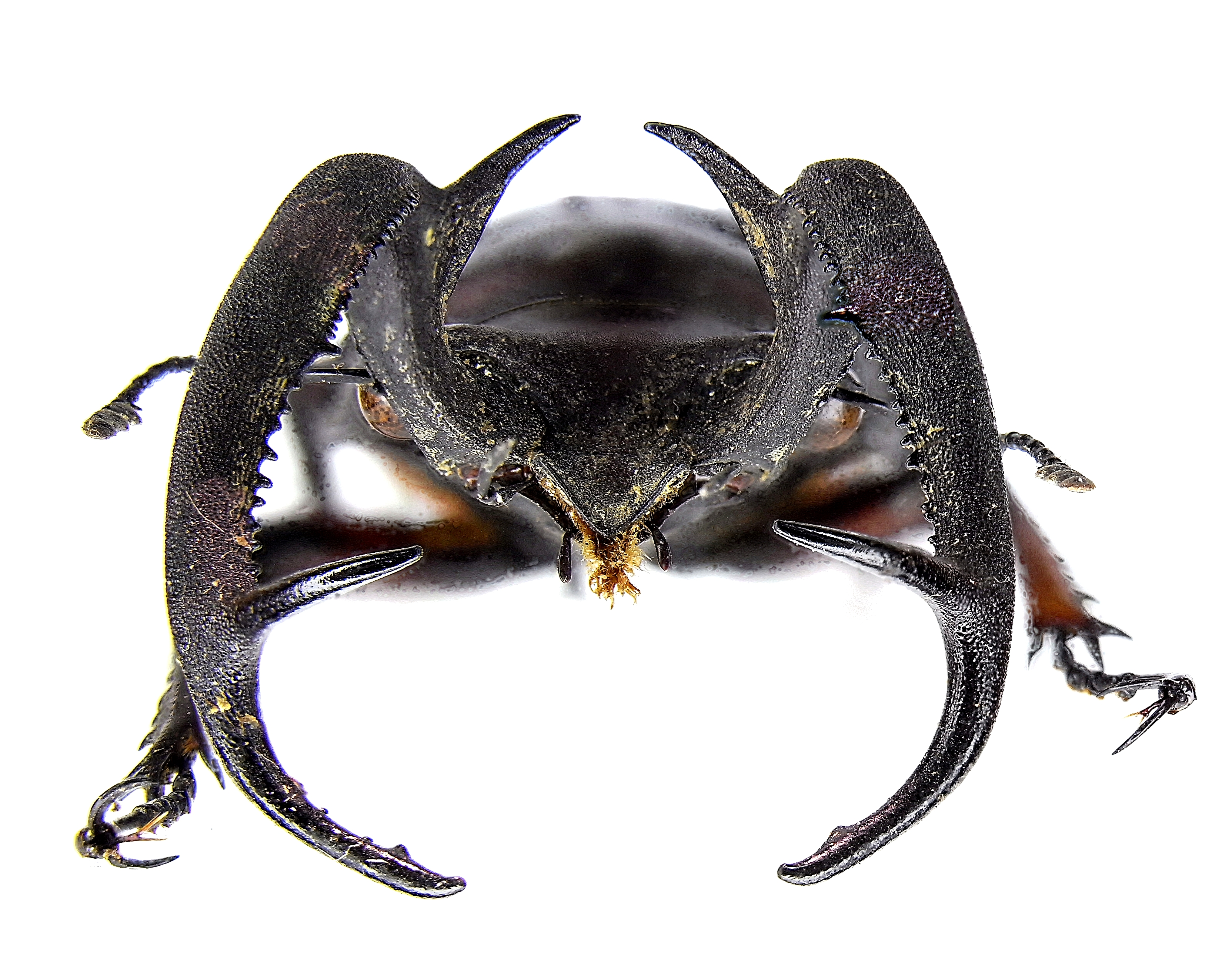 Rhaetulus didieri